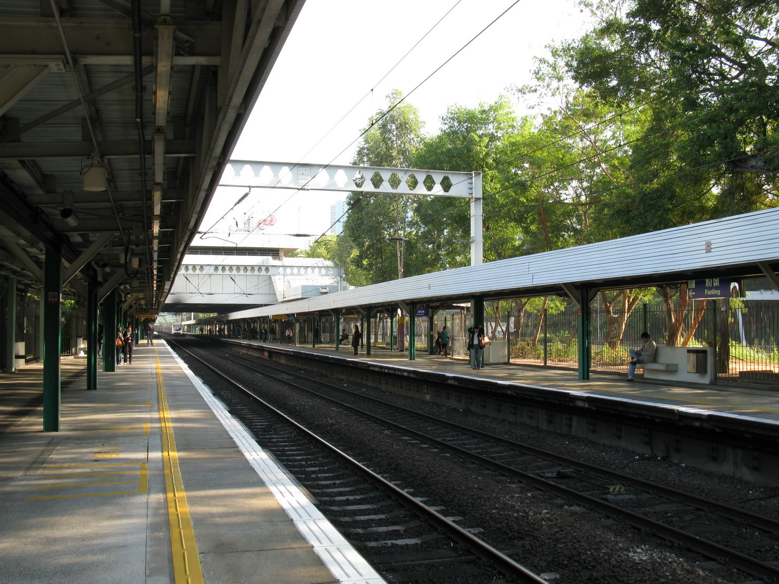 MTR Fanling station platform (before Rail Merger)